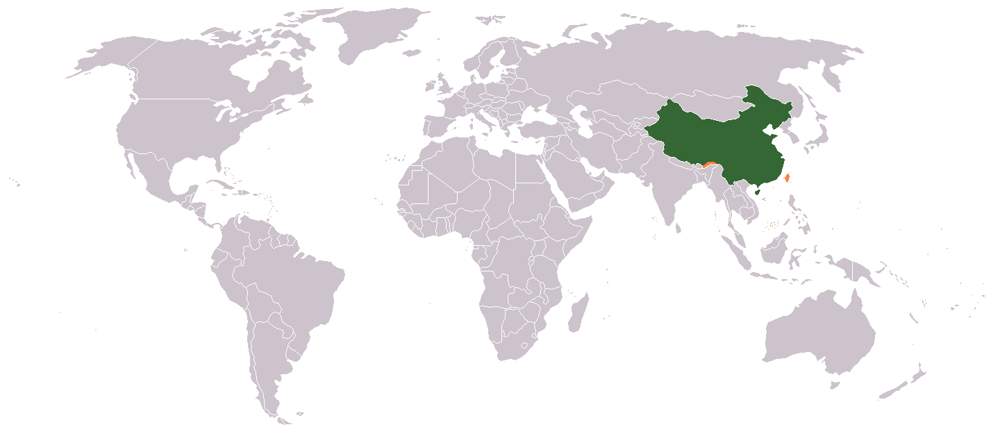 Location of the People's Republic of China. This map shows territories controlled and claimed by the PRC. The PRC also claims sovereignty over Taiwan. Green = actual PRC control (mainland China, some South China Sea islands including those within the Spratly and Paracel island groups); Orange = claimed PRC territory (Taiwan, Penghu, Dongsha islands, Kinmen, Matsu, Arunachal Pradesh, Diaoyutai, Scarborough Shoal, Shaksgam)